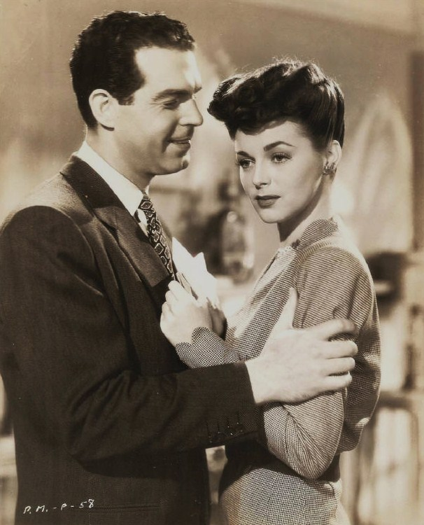 Fred MacMurray and Marguerite Chapman in Pardon My Past (1945) - publicity still (cropped : see source)